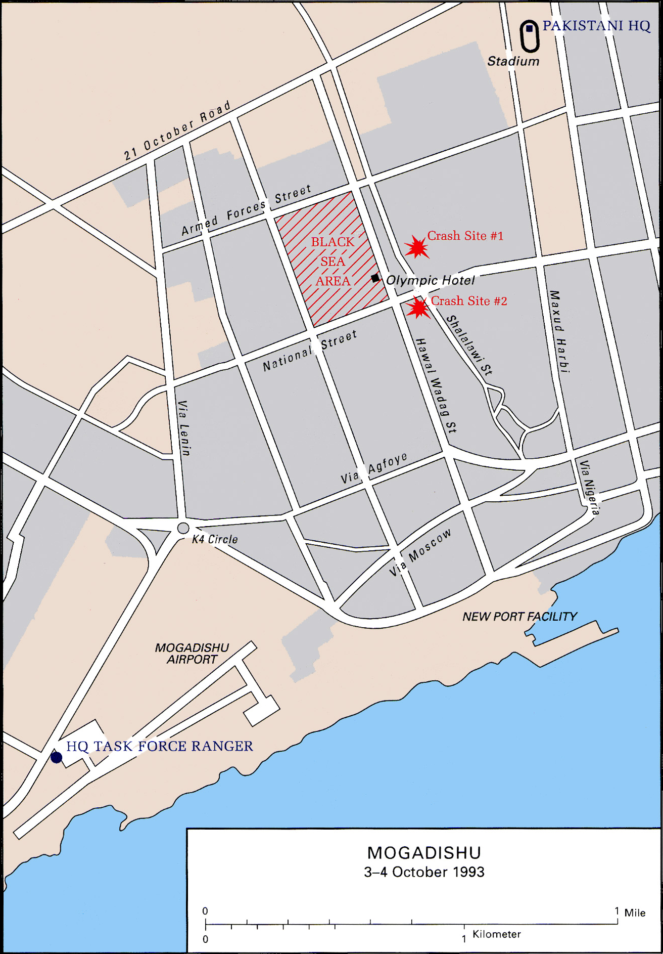 Battle_of_mogadishu_map_of_city